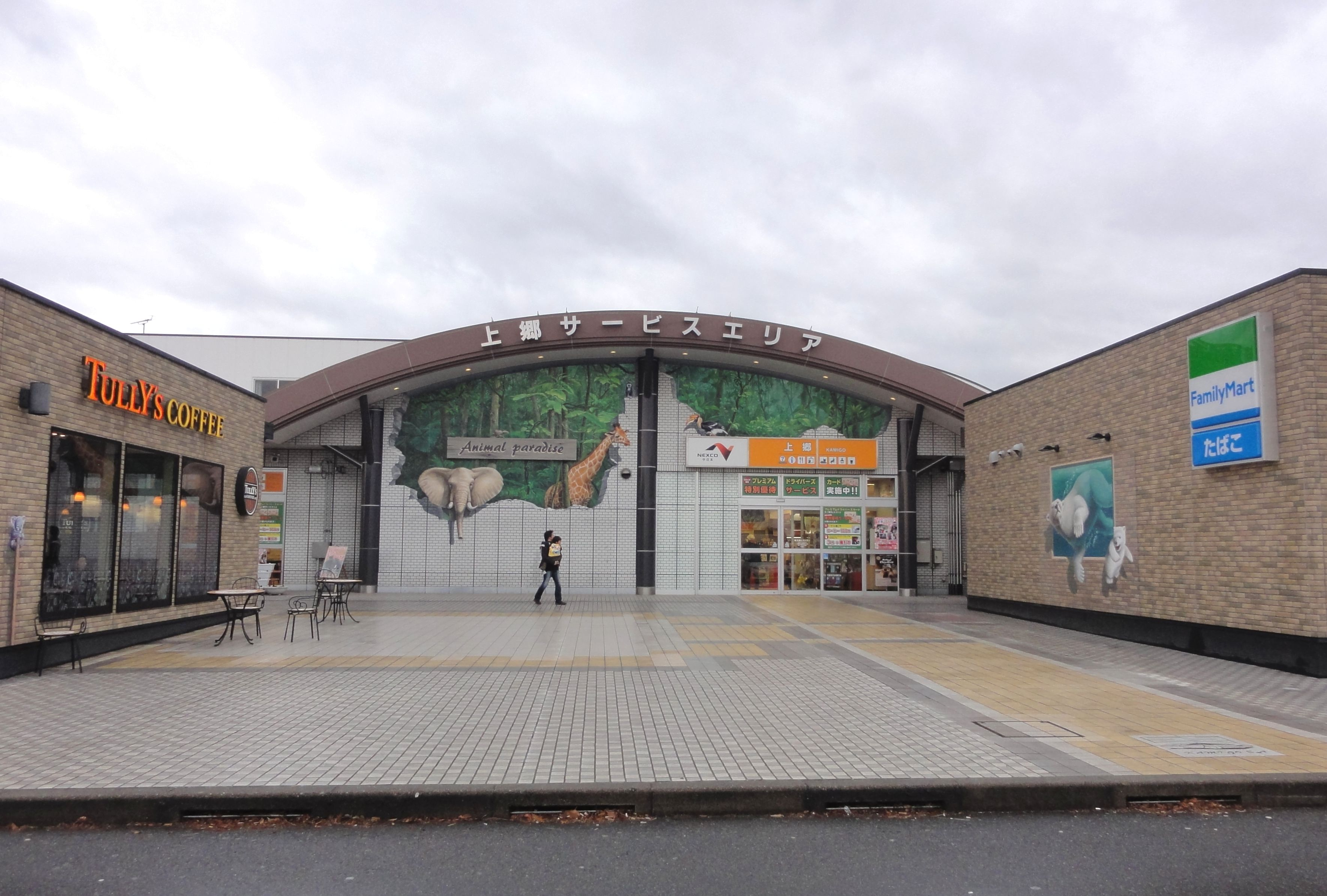 Tomei Expressway kamigo Service Area for Tokyo